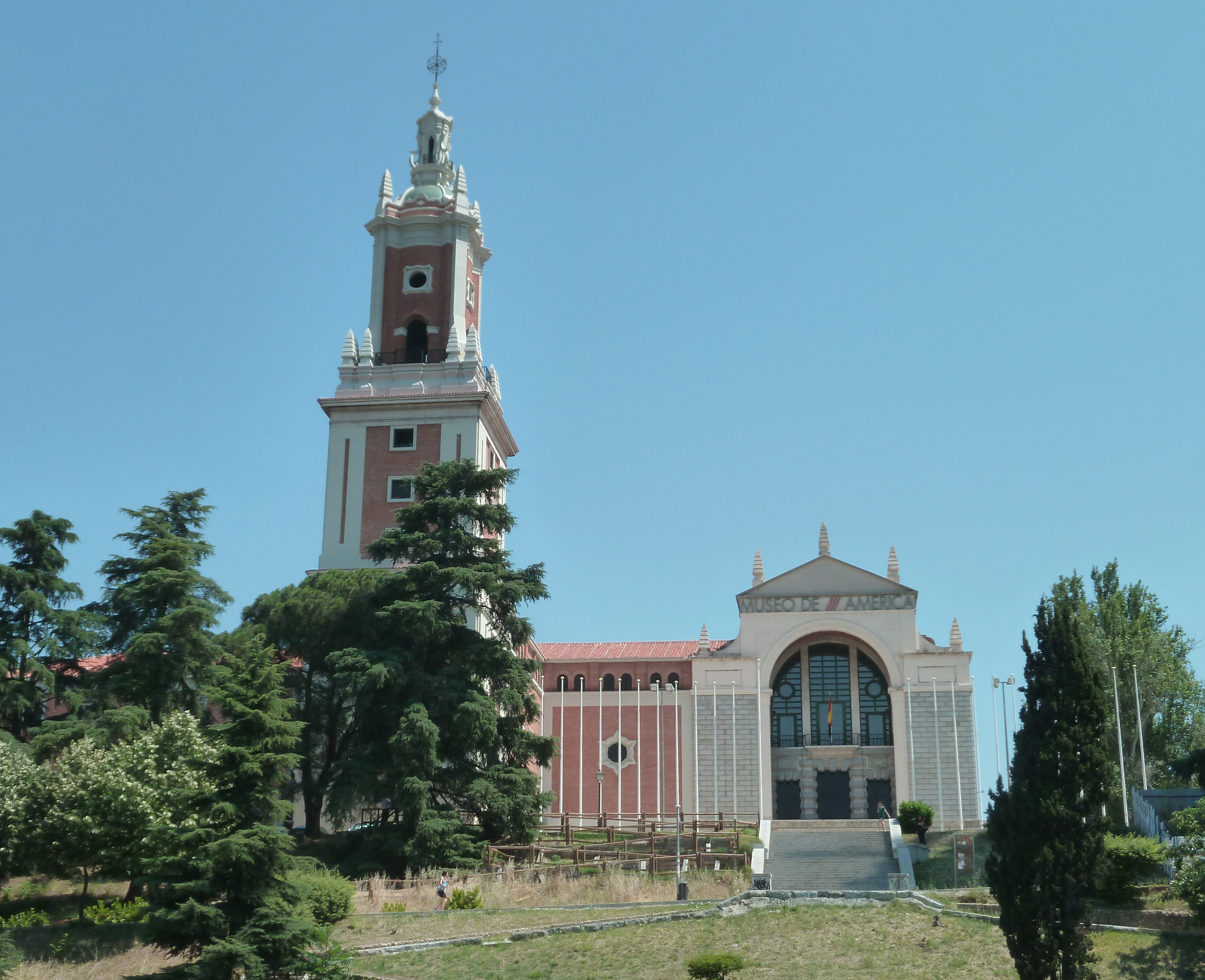 South-west façade of the Museum of the Americas in Madrid (Spain).